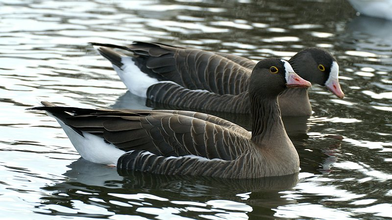 Lesser white fronted goose (Anser erythropus)